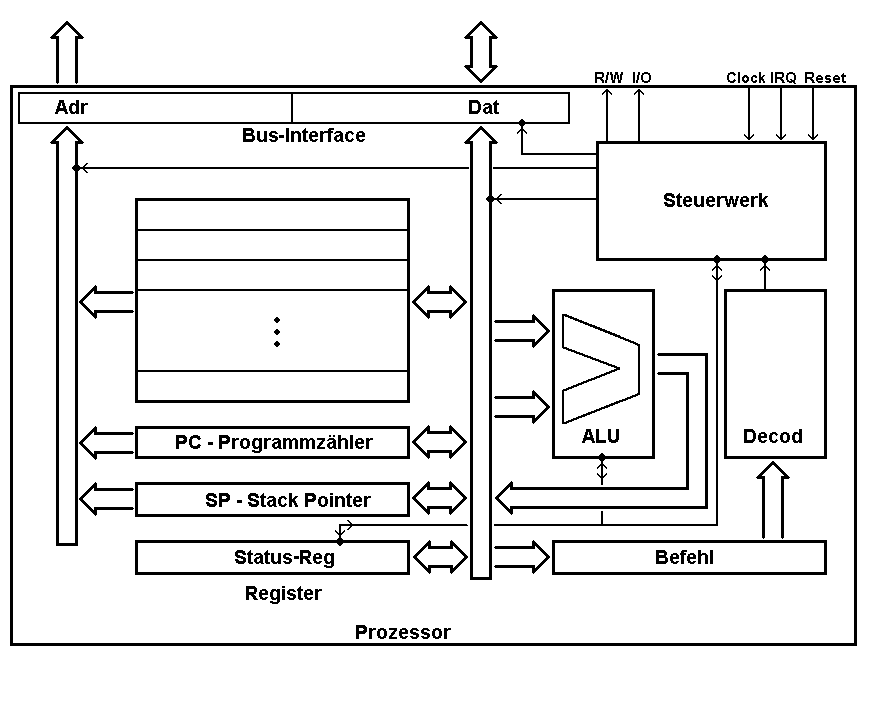 (see File:Proz1-e.png)